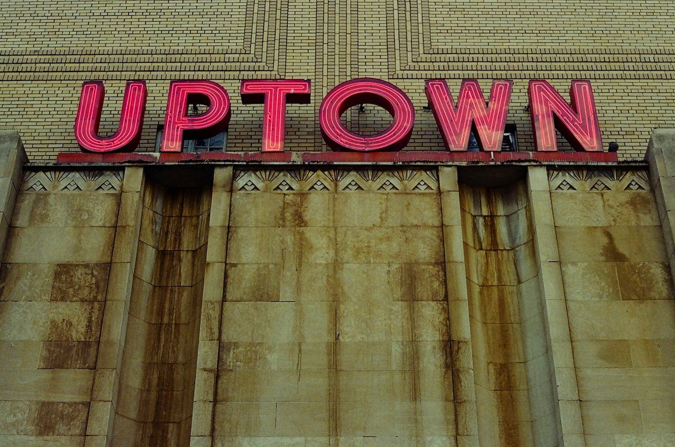 Uptown Movie Theater Washington DC, 2008